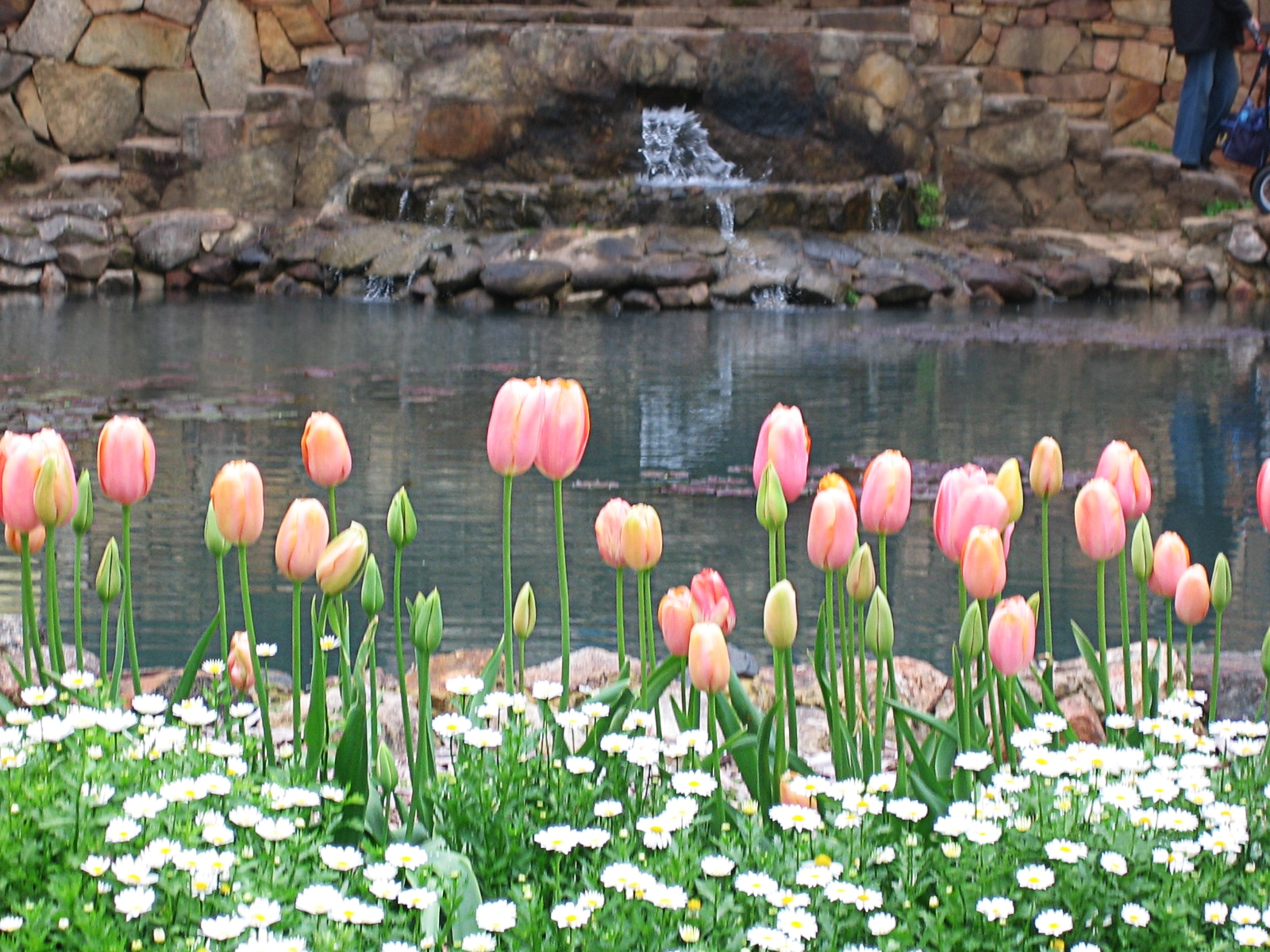 Araluen Botanical Park, Roleystone, Western Australia